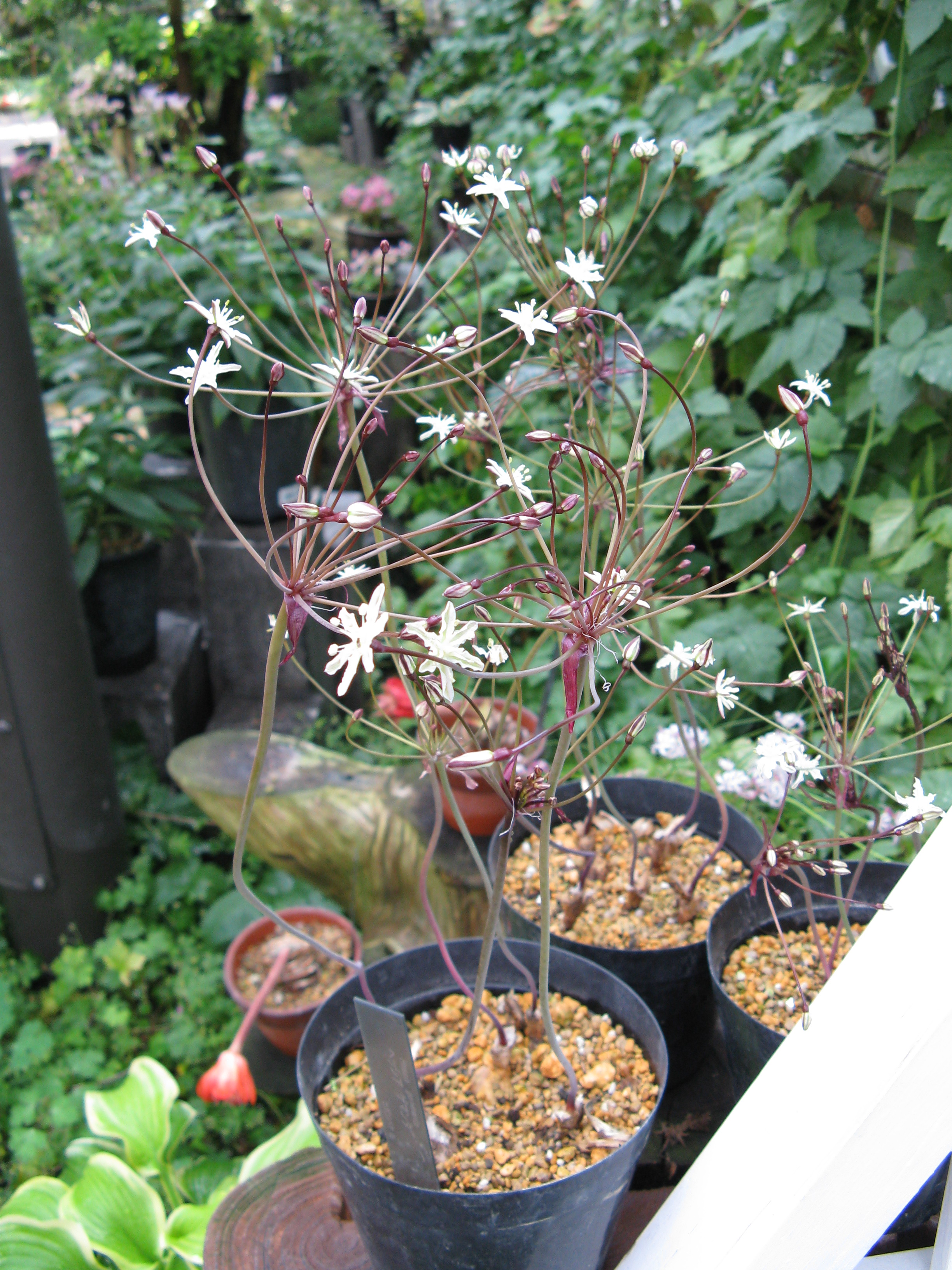 Scientific name Strumaria gemmata Place:Osaka Prefectural Flower Garden,Osaka,Japan